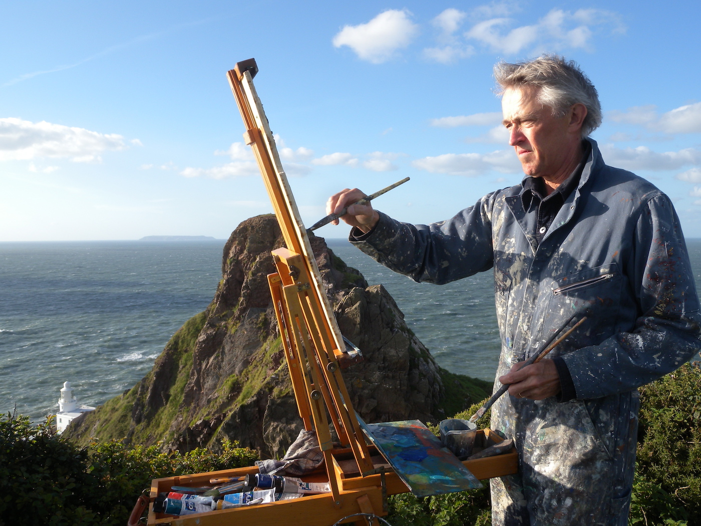 Jeremy Gardiner, artist